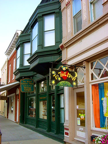 Image Taken By Ralph Moran